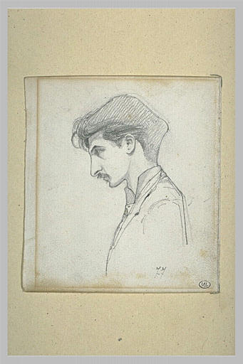 Portait of Gaston Redon by Odilon Redon